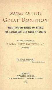 Cover of first edition of Songs of the Great Dominion (London, England: Walter Scott publisher, 1889).